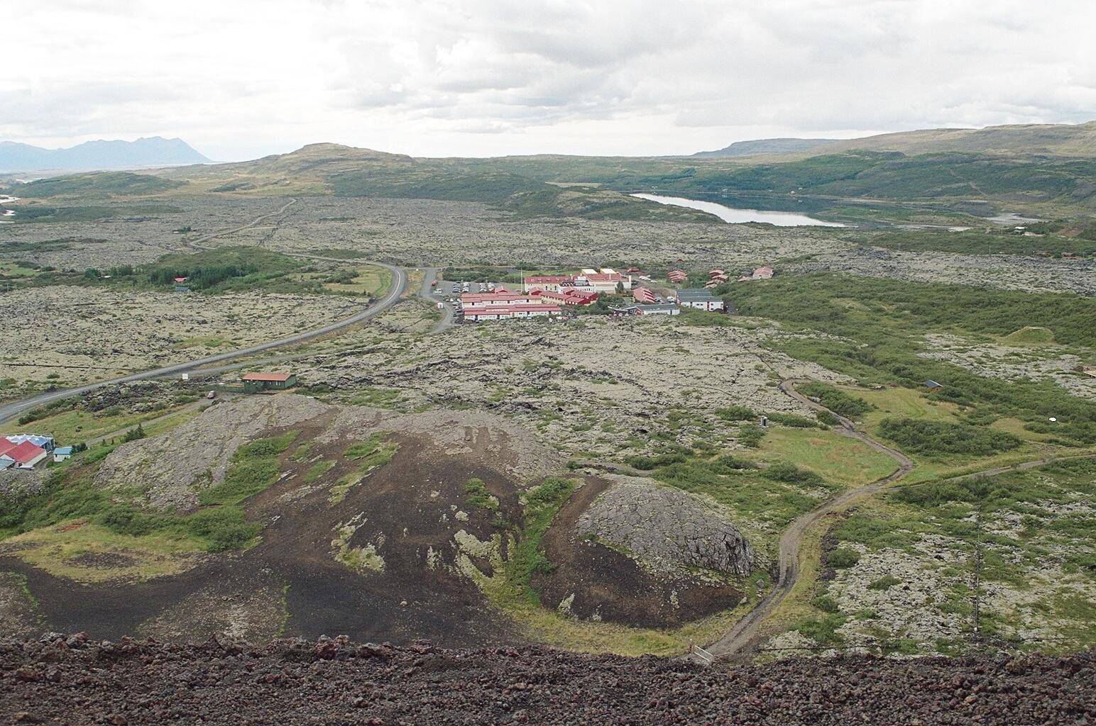 Bifröst University in Iceland, GNU FDL The photo was taken by my-self in autumn 2004, no other copyrights involved. It shows Bifröst University seen from the Grábrók craters. To the left in the background the volcano Hafnarfjall, to the right the lake Hreðavatn. Reykholt 18:45, 11 Dec 2004 (UTC)